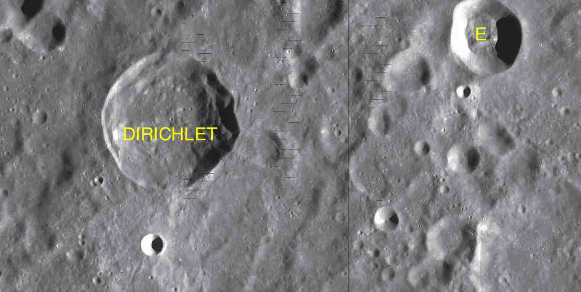 Parts of the charts LAC-69, LAC-70 used for the presentation